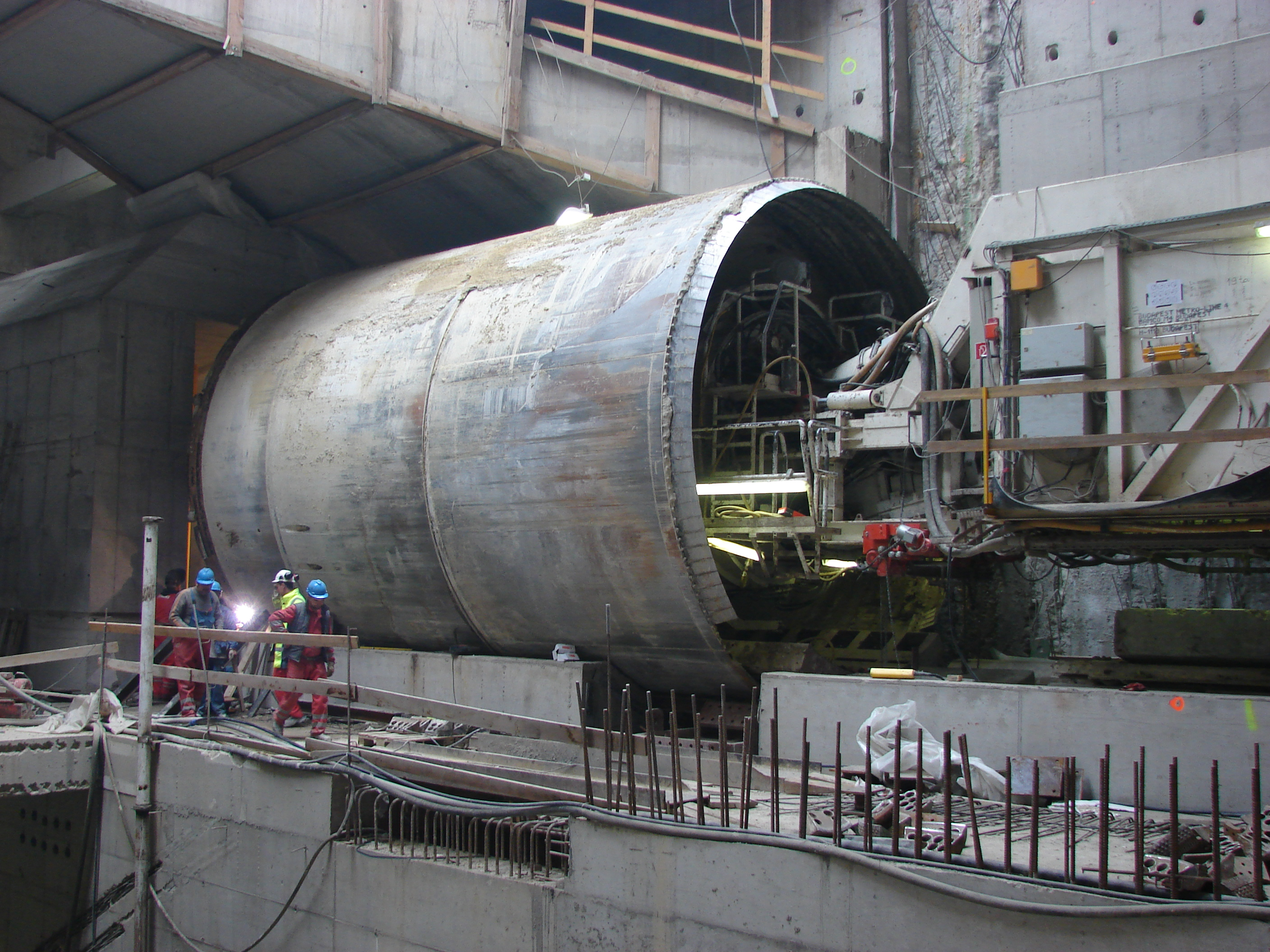 Cutterhead of Budapest Metro line 4 at Kálvin tér station